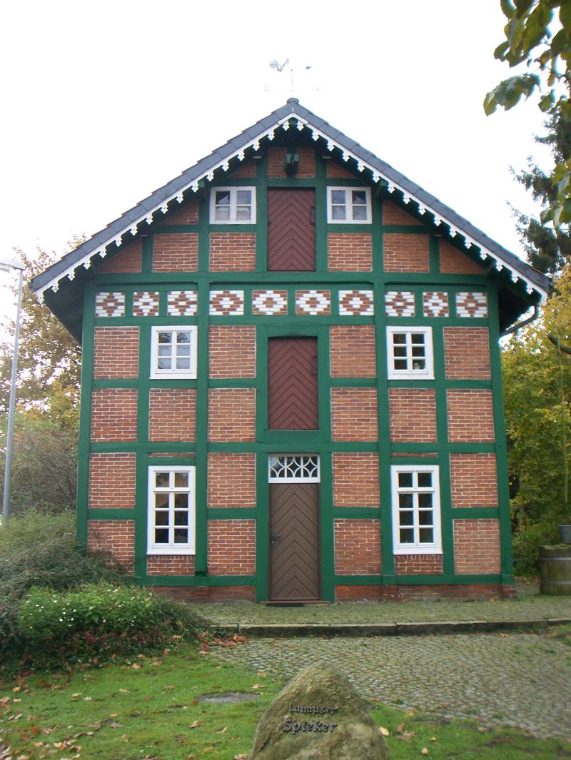 The "Lahauser Spieker", a historical storehouse, build 1880. Municipal Weyhe, Lower Saxony, Germany